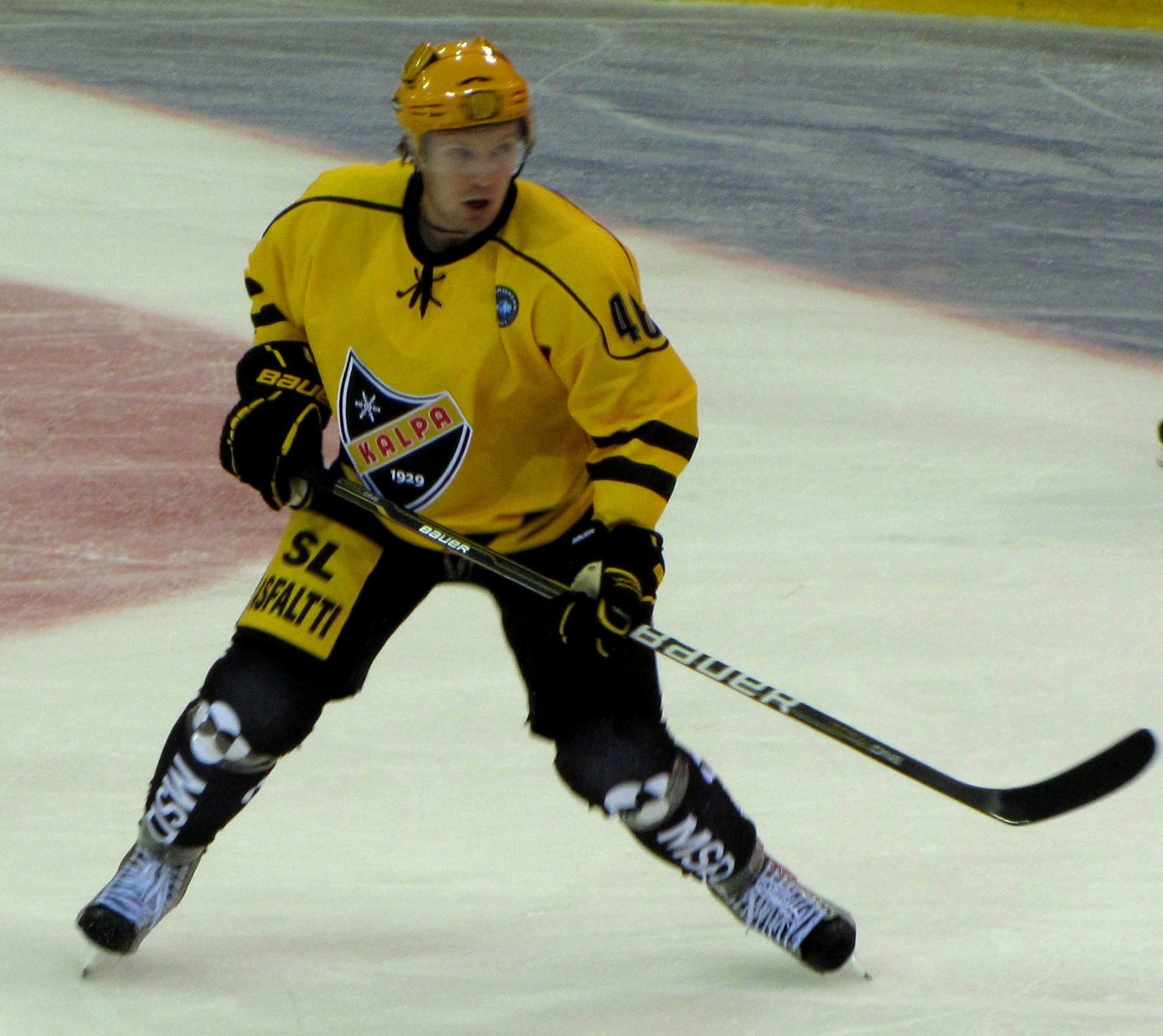 Finnish ice hockey player Jussi Timonen playing for KalPa Kuopio against Vienna Capitals in the 2011 European Trophy in Vienna, Austria.